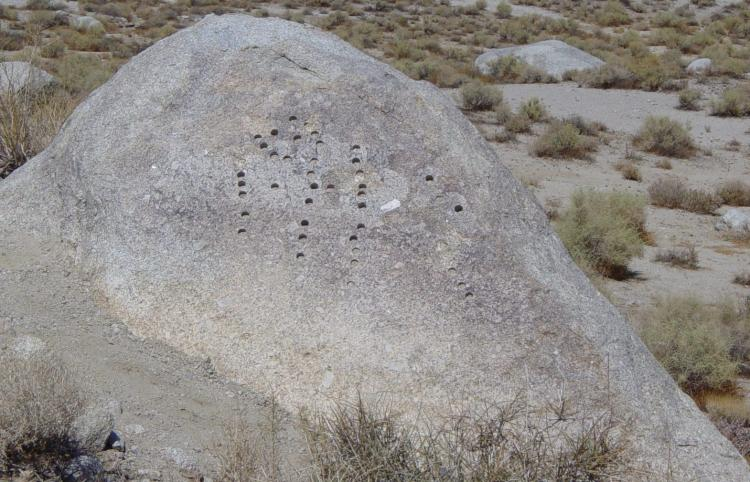 Pyramid Stone on Lone Pine fault scarp (750px)